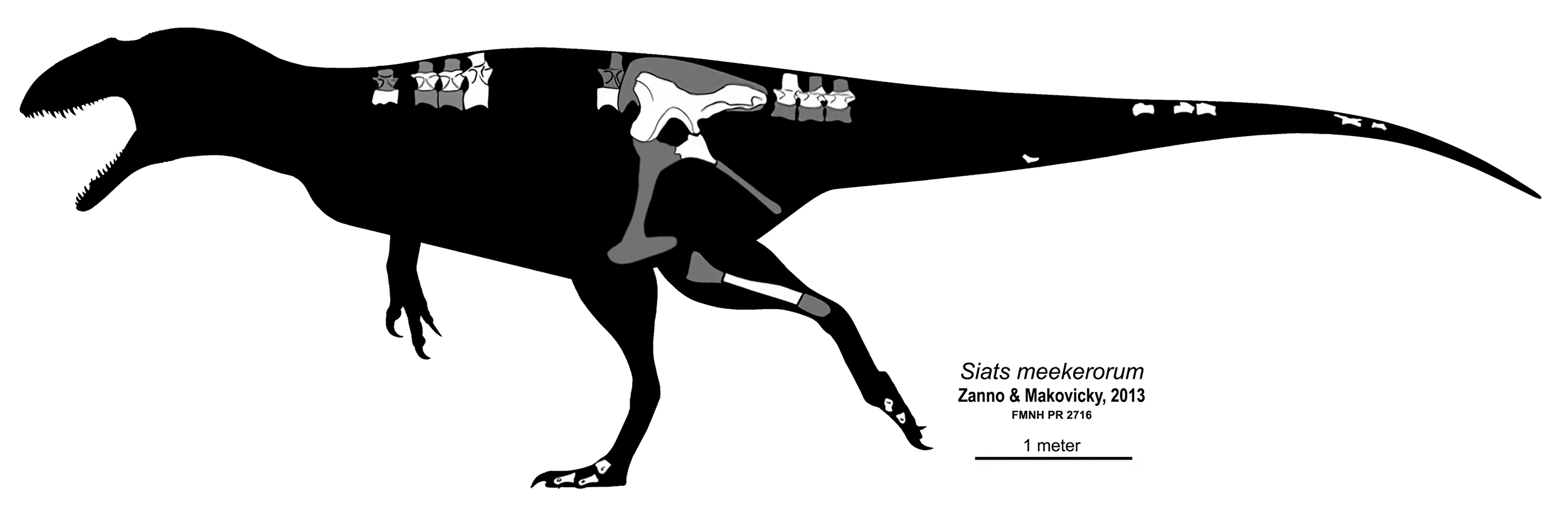 Skeletal diagram of known remains of Siats meekerorum. Silhouette adapted from